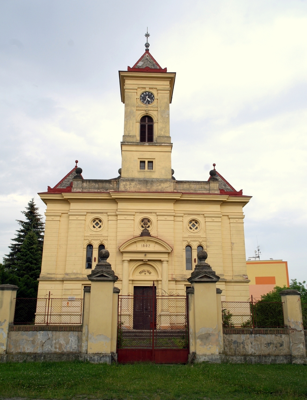 Evangelical Church (Mělník), Krombholcova str., Mělník